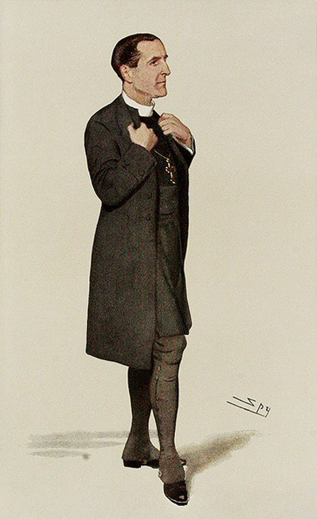 Caricature of Cosmo Gordon Lang when he was Bishop of Stepney